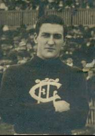 Alex Barningham in a Carlton team photo from 1909-1912